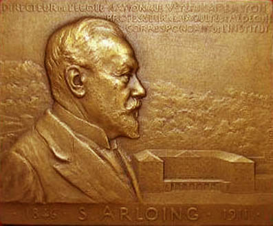 Medal